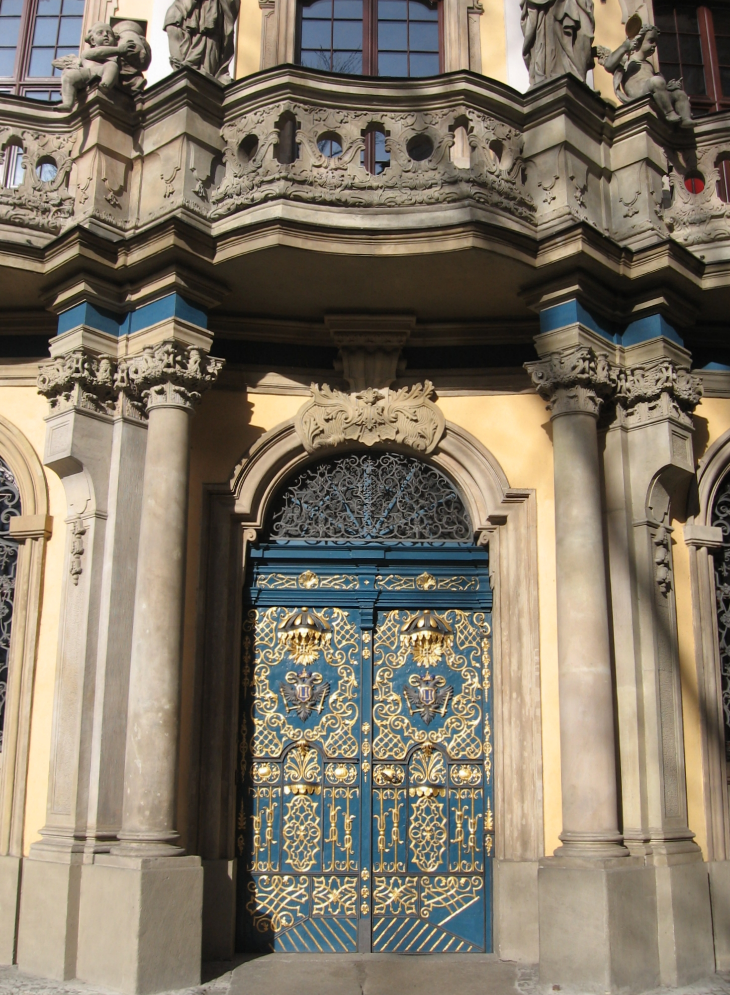 The doors of the main building of the university - Wrocław (Breslau)